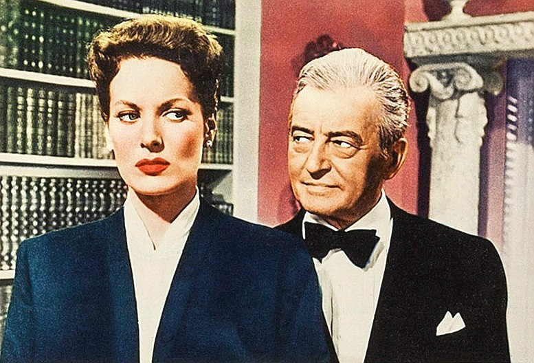 Photo from the film Lisbon. Pictured are Maureen O’Hara and Claude Rains.